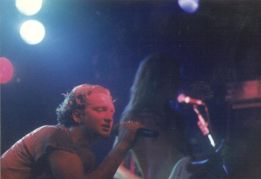 Alice in Chains at The Channel in Boston, MA.